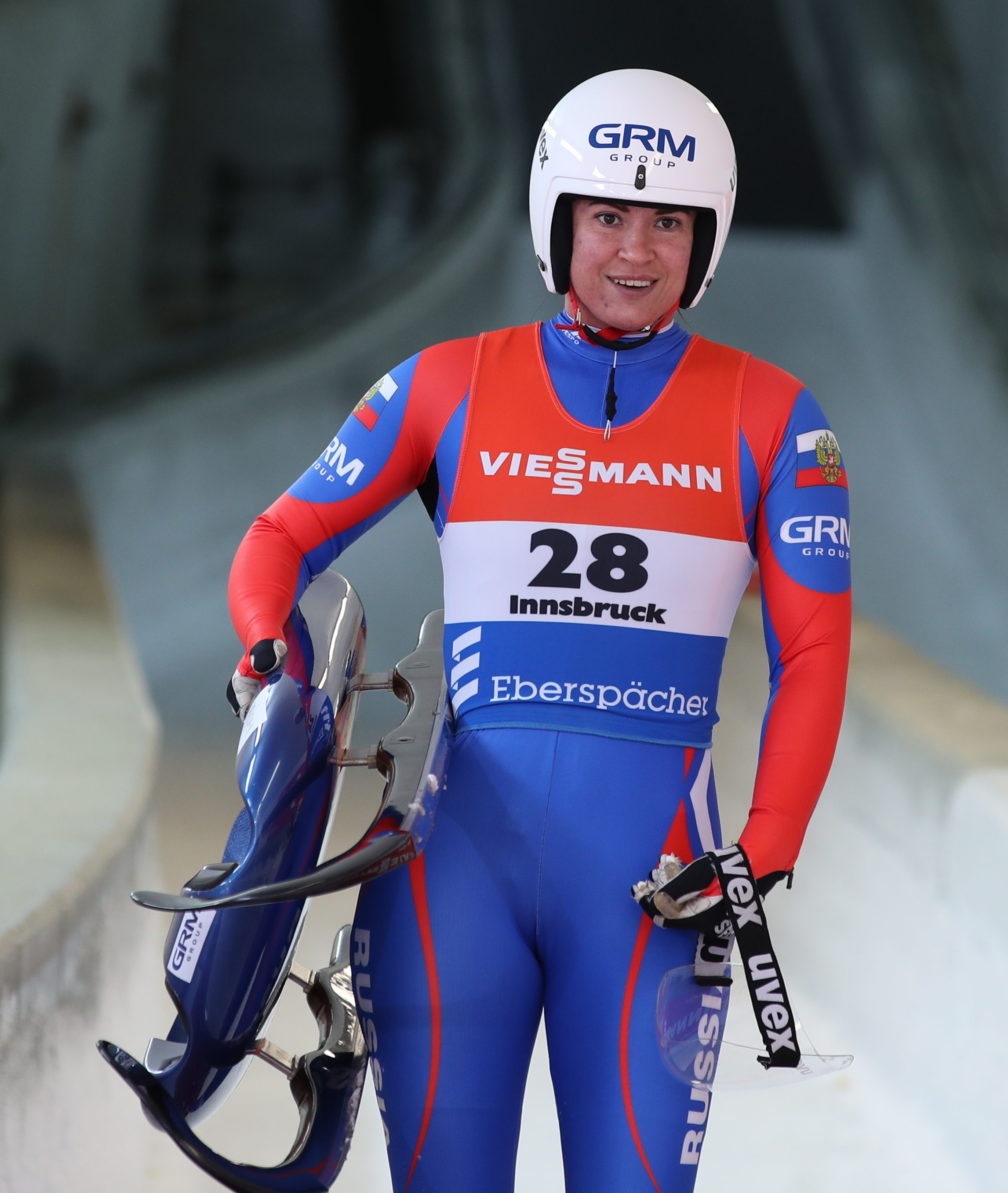 Women's World Cup race at the 2019/20 Luge World Cup in Innsbruck-Igls